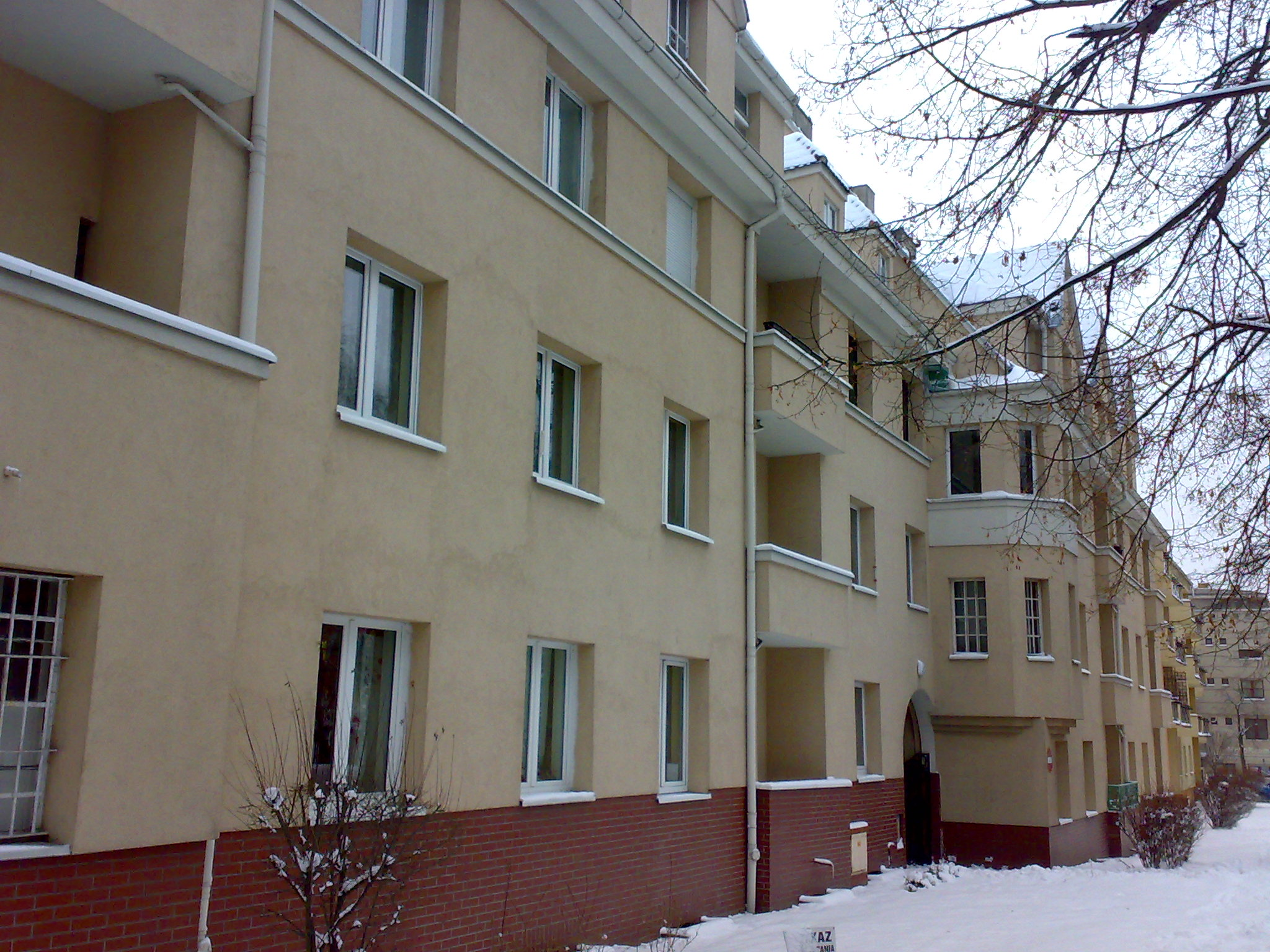 Powstancza Street, Poznan. PGB Building.